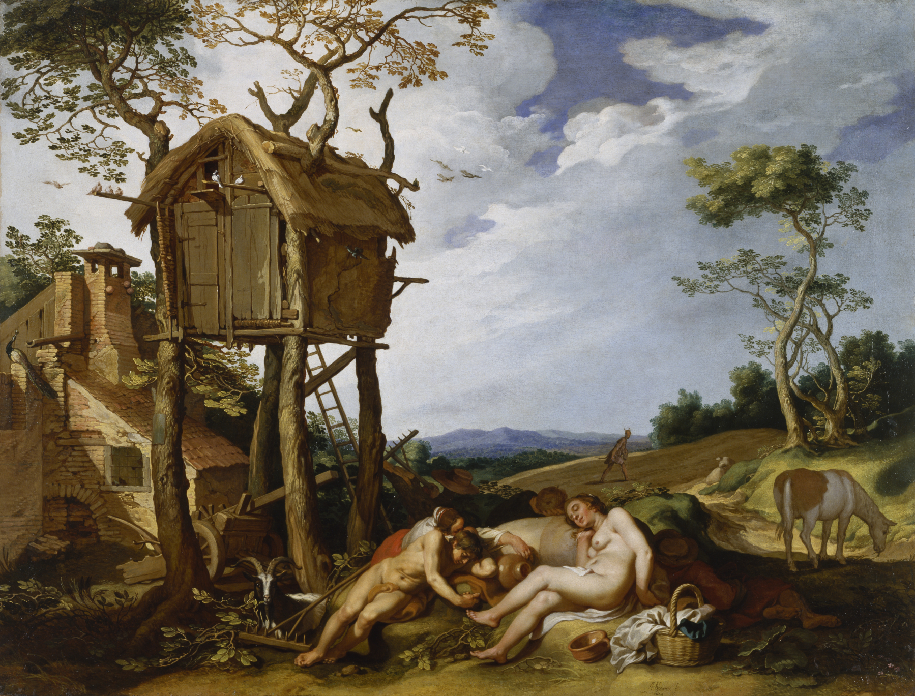 In this parable from the Gospel of Matthew, the devil, identified by his horns and tail, sows weeds (or tares) in the field where wheat has been planted, while the lazy peasants are sleeping. Christians considered sloth one of the Seven Deadly Sins to which mankind was subject as a result of the Original Sin of Adam and Eve, to whom the two naked sleepers allude. The dovecote (a birdhouse to attract doves or pigeons that can be trapped for food without the bother of raising them) was associated with the morally lazy who take the easy way. The goat, known for its lust, alludes to self-indulgence, and the peacock, to pride. Bloemaert was gifted in depicting natural detail, but he never painted pure landscapes, preferring pictures with a lesson. He was one of the leading artists of Utrecht and trained many major artists of the next generation.